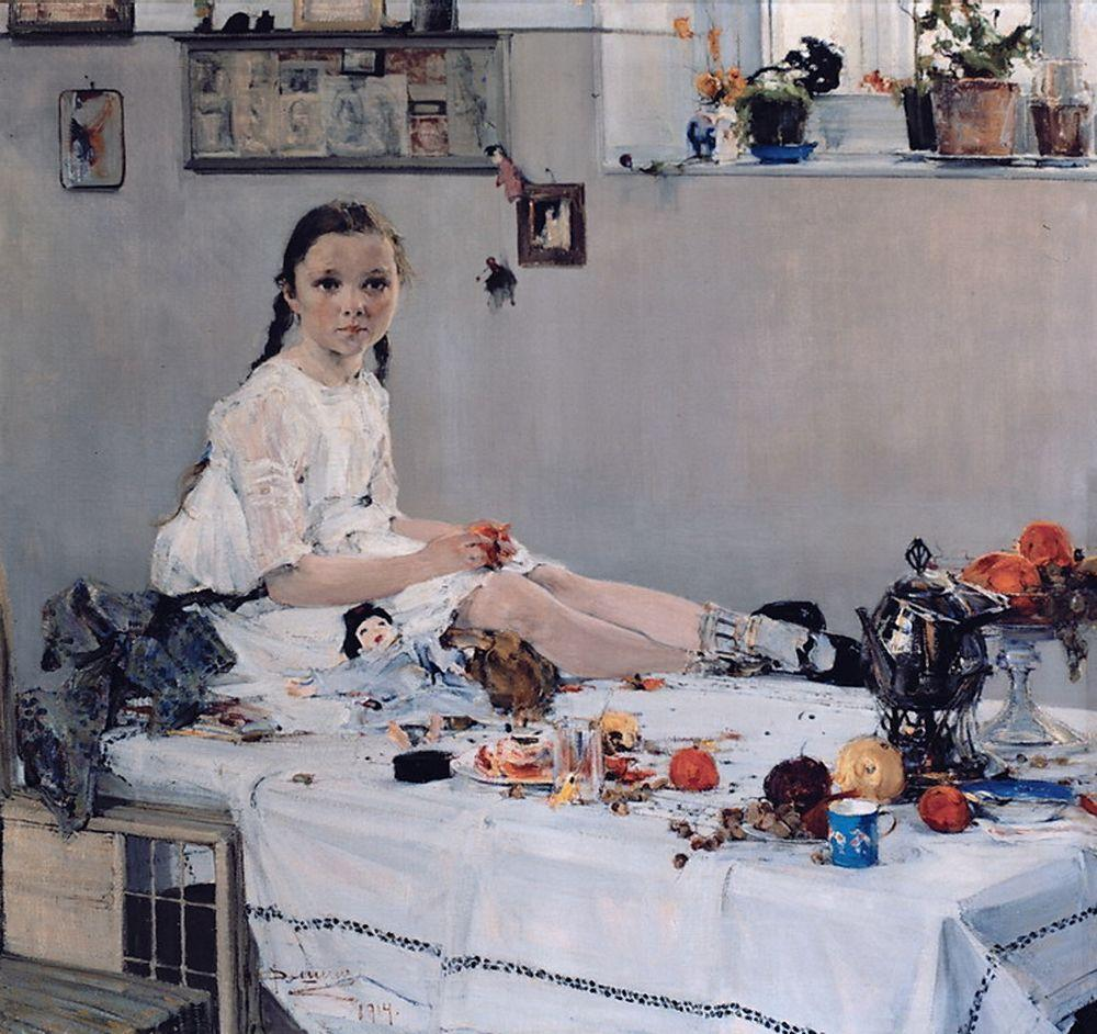 Nikolai Ivanovich Fechin, Portrait of Varya Adoratskaya, 1914, State Art Museum of Tatarstan, Kazan